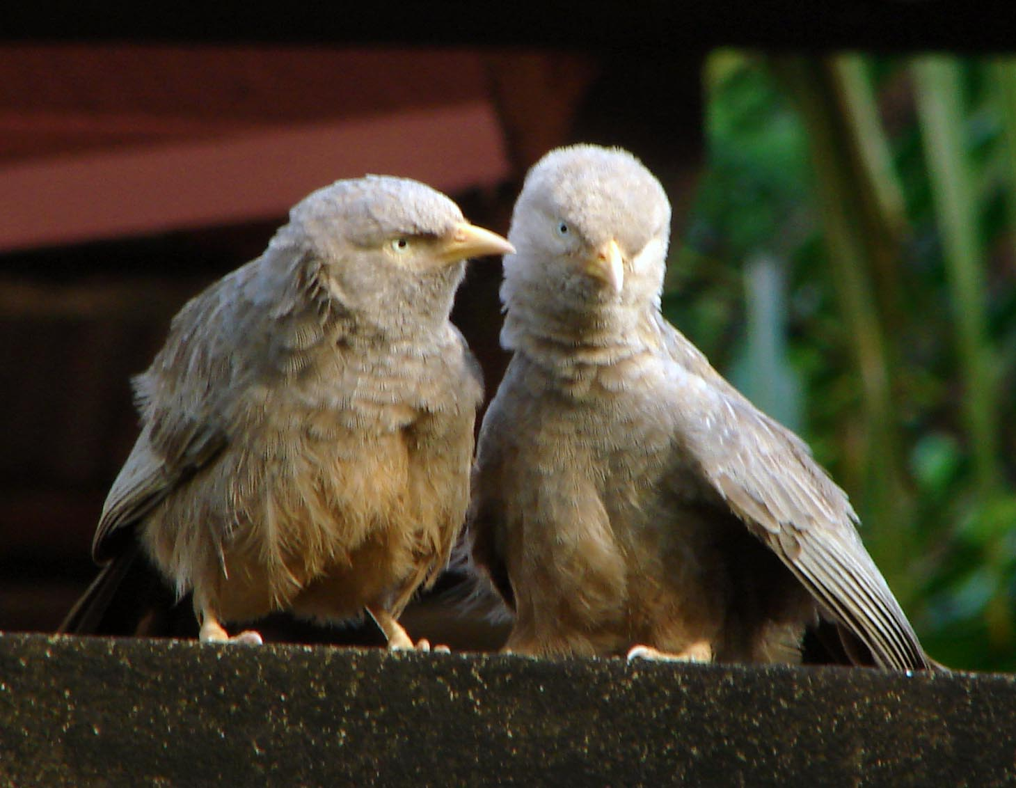 A pain of Yellow-billed Babblers on Shi Lanka.